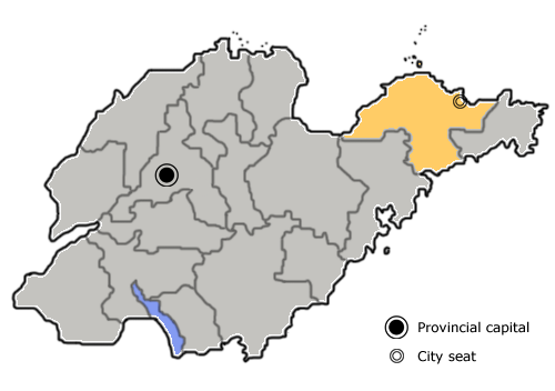 The prefecture-level city of Yantai is highlighted on this map of Shandong province, People's Republic of China.